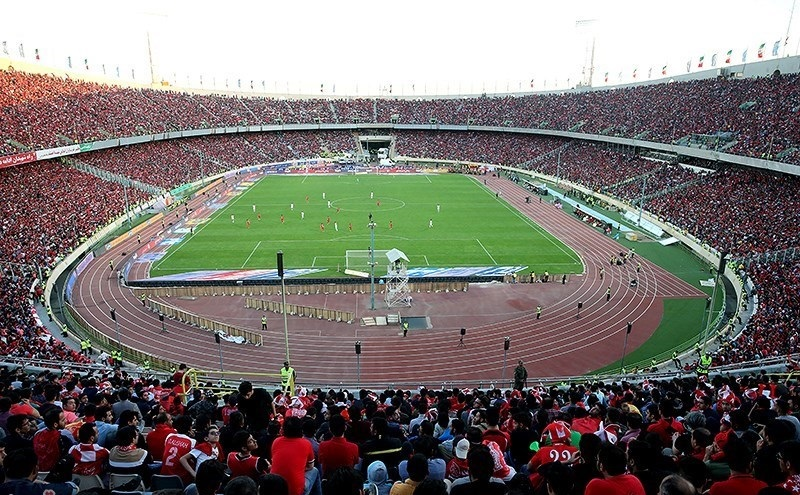 FC Persepolis fans at Azadi Stadium (Persepolis and FC Padideh Match)